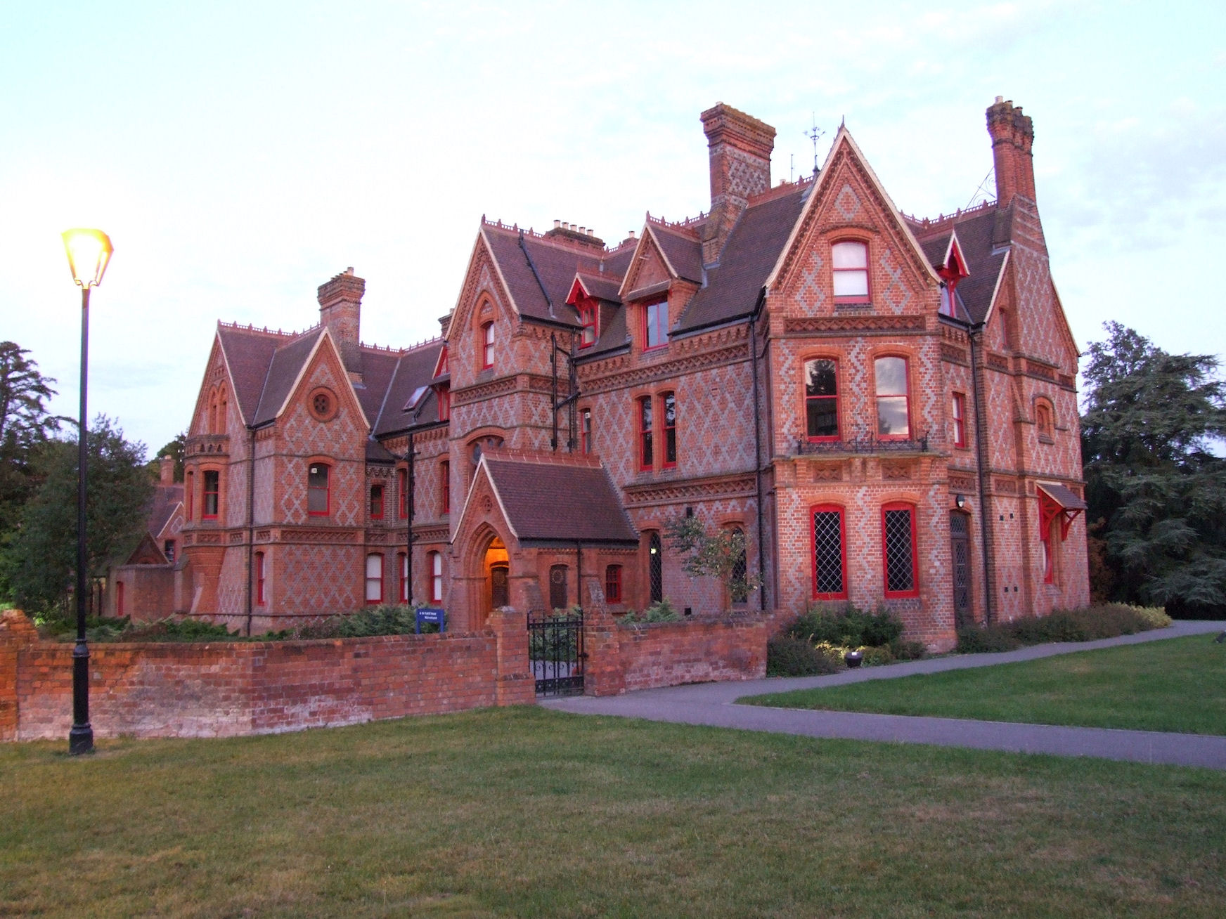 This view is from the west. For a description of the house see the Foxhill set introduction.